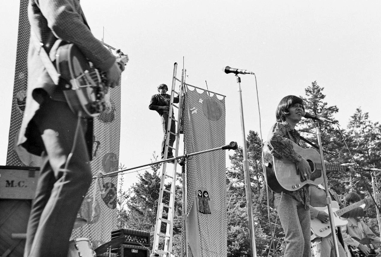 Unidentified musicians (The Lamp of Childhood) with stage backdrop under repair at the KFRC Fantasy Fair and Magic Mountain Music Festival in Marin County, California, United States in June, 1967 Original title: KFRC Fantasy Fair 1967: Repairs happened during the performance